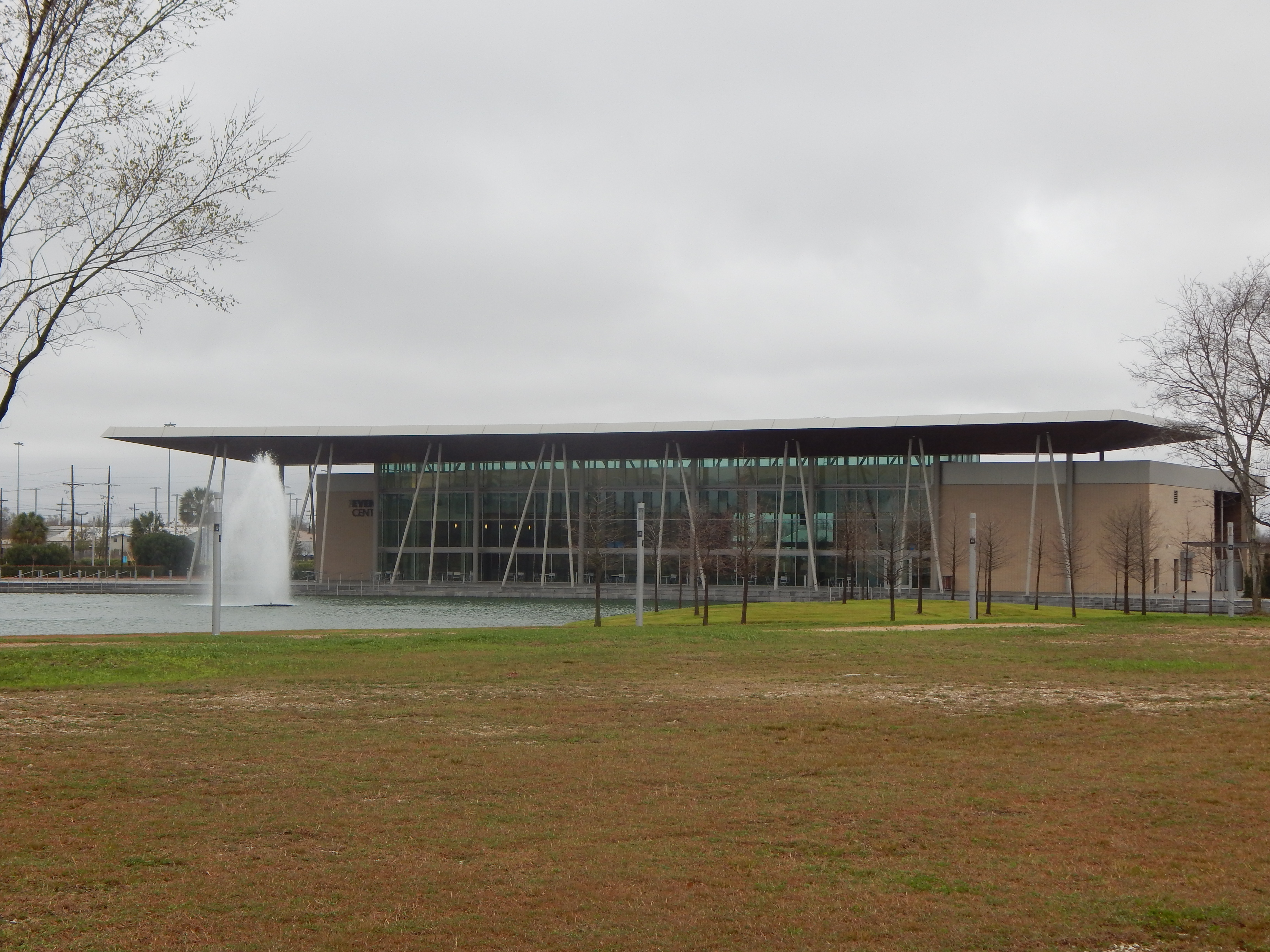 Beaumont Event Centre - view of building looking across the lake.